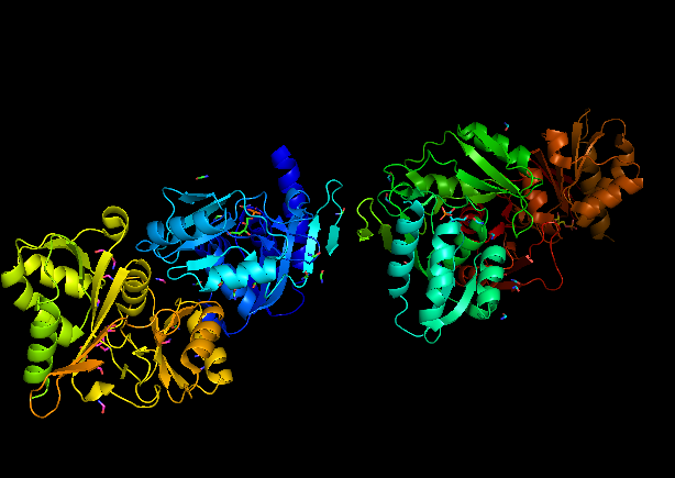 Crystal structure of RPIA